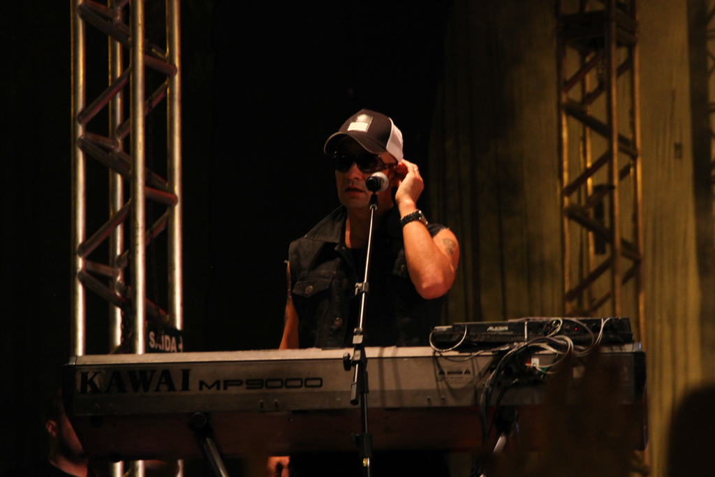 Sérgio Britto at the 2013 Virada Cultural Paulista in Barretos, São Paulo, Brazil.